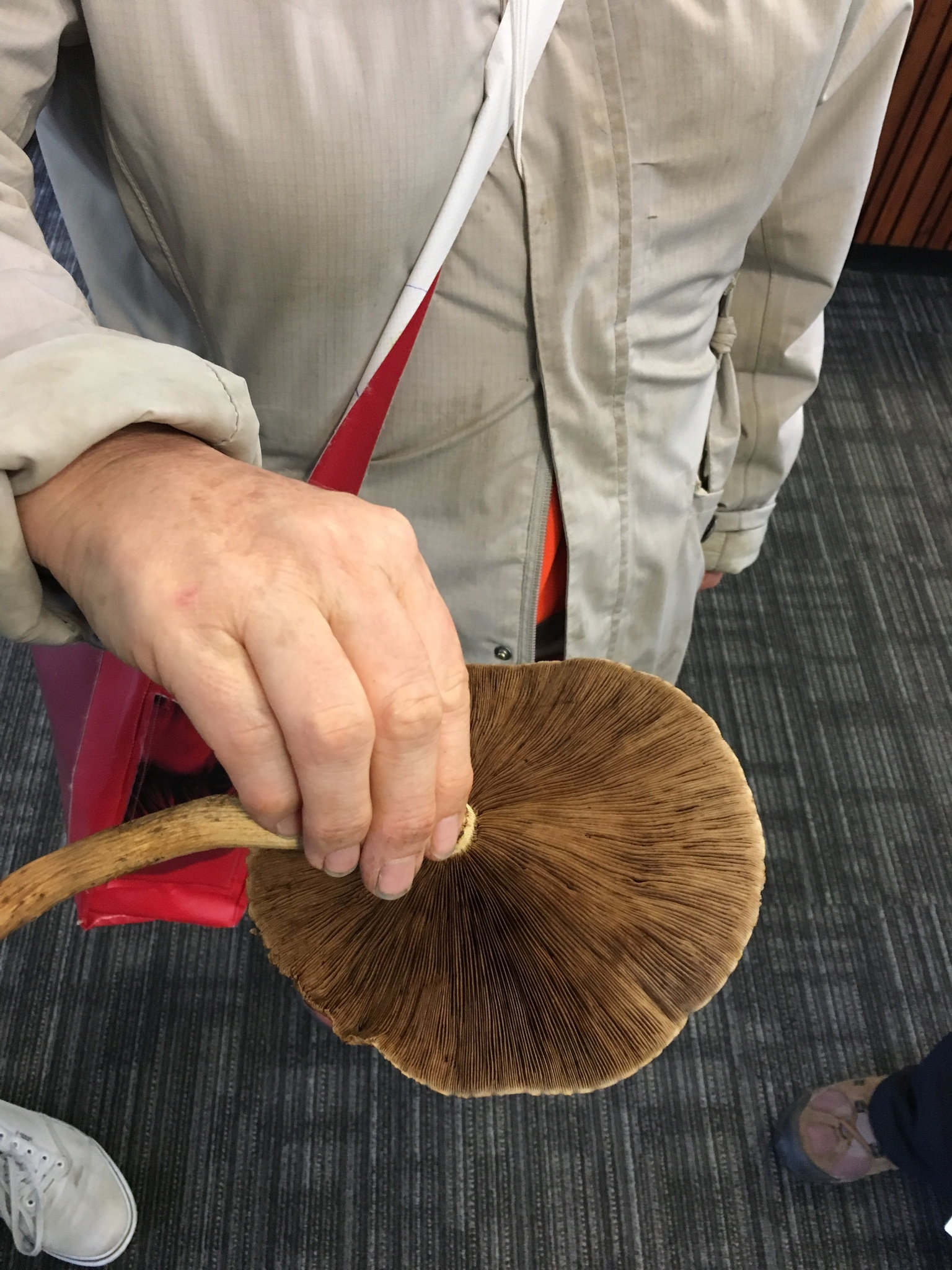 Cyclocybe parasitica (Q62852738) by Tim Park (Q62777422) via iNaturalist at the Wellington Botanic Garden BioBlitz 2019 (Q62770398)